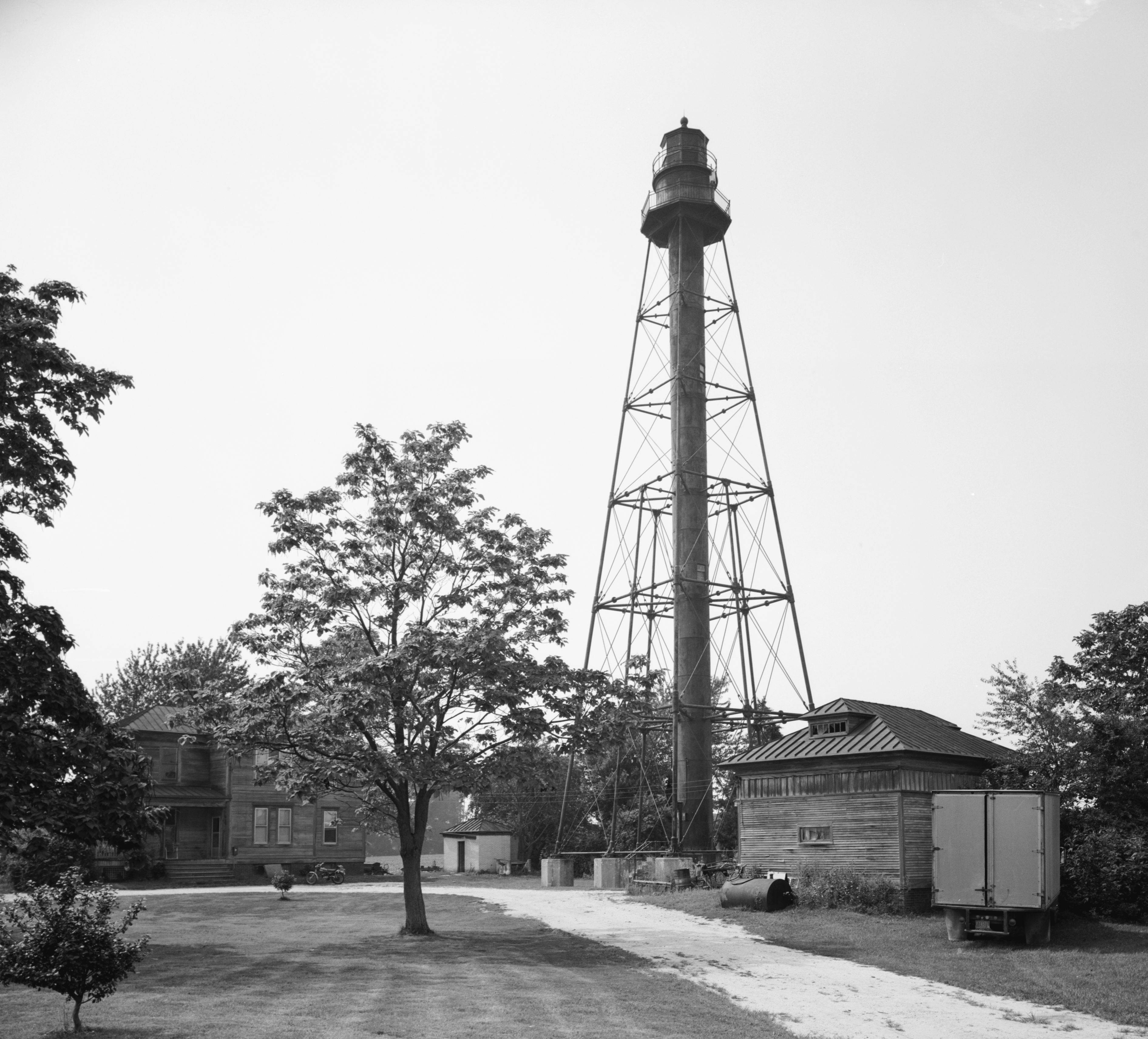 Reedy Island Range Rear Light, Route 9, Taylors Corner (New Castle County, Delaware)